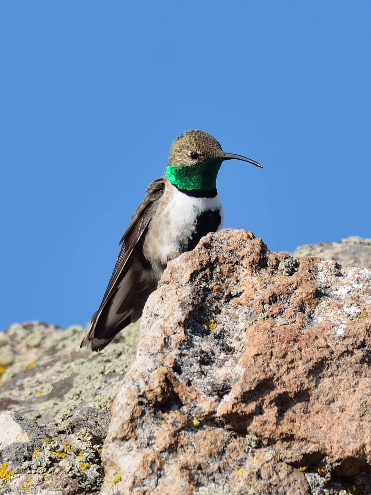 Male